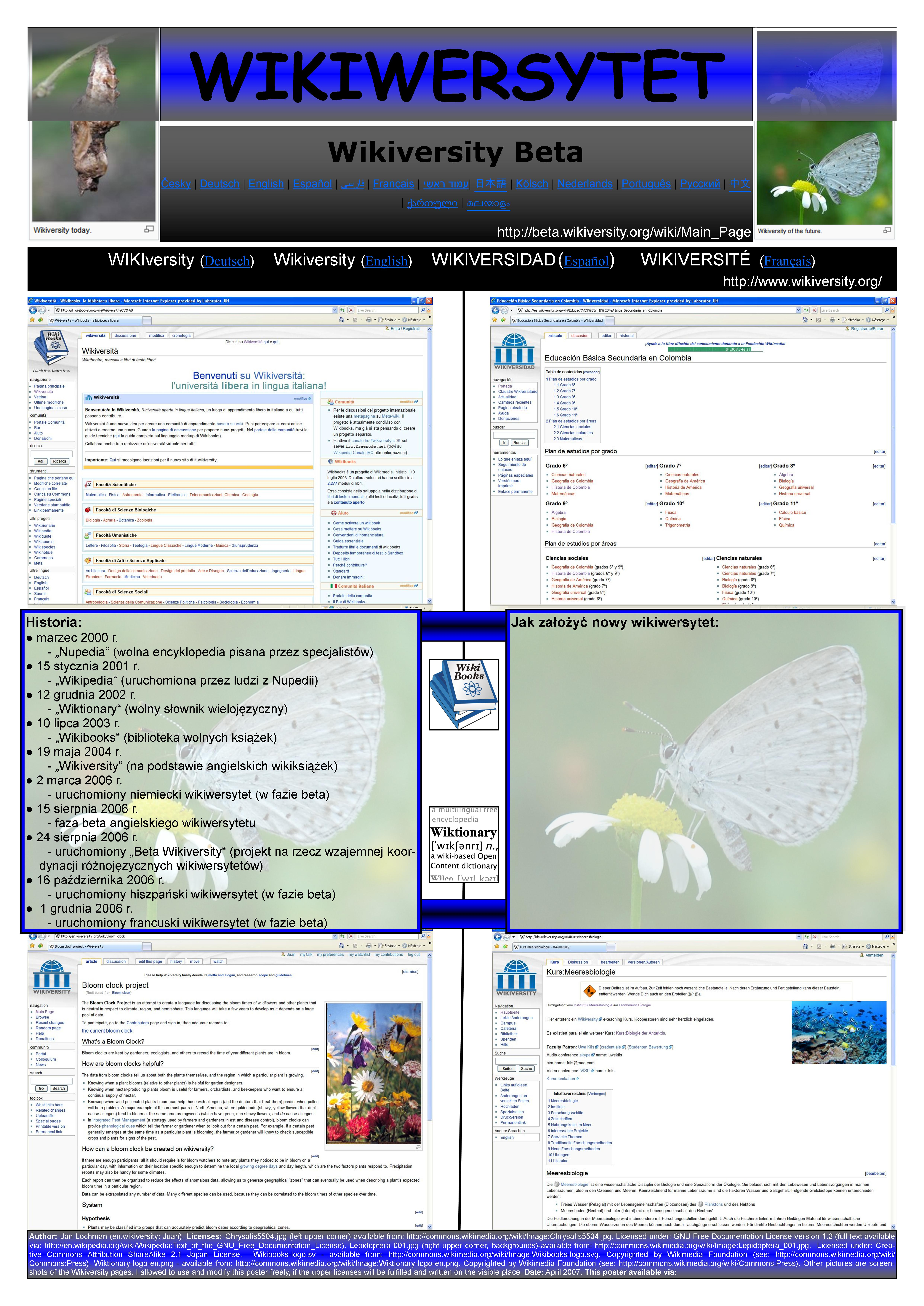 Poster for Polish Wikimedia Conference - Białowieża 2007 left in Prague.